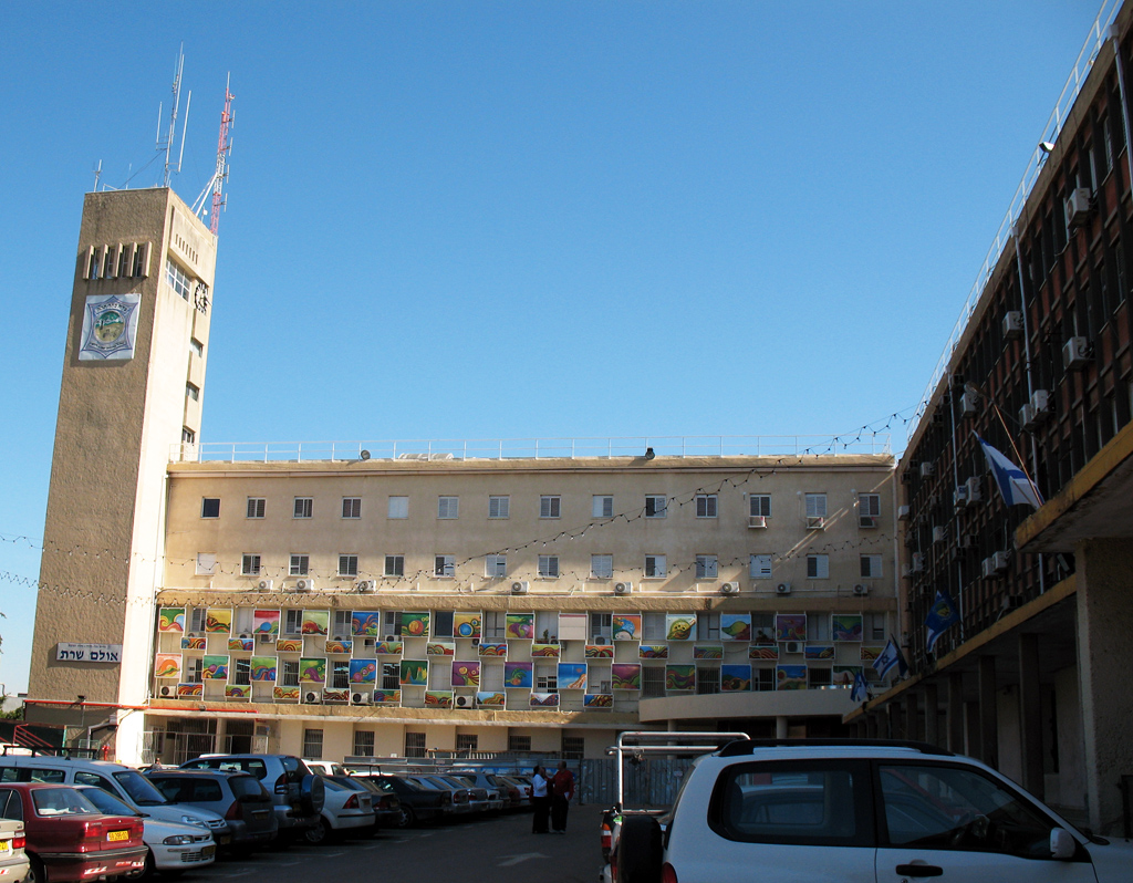 City hall of Petah Tikva, Israel